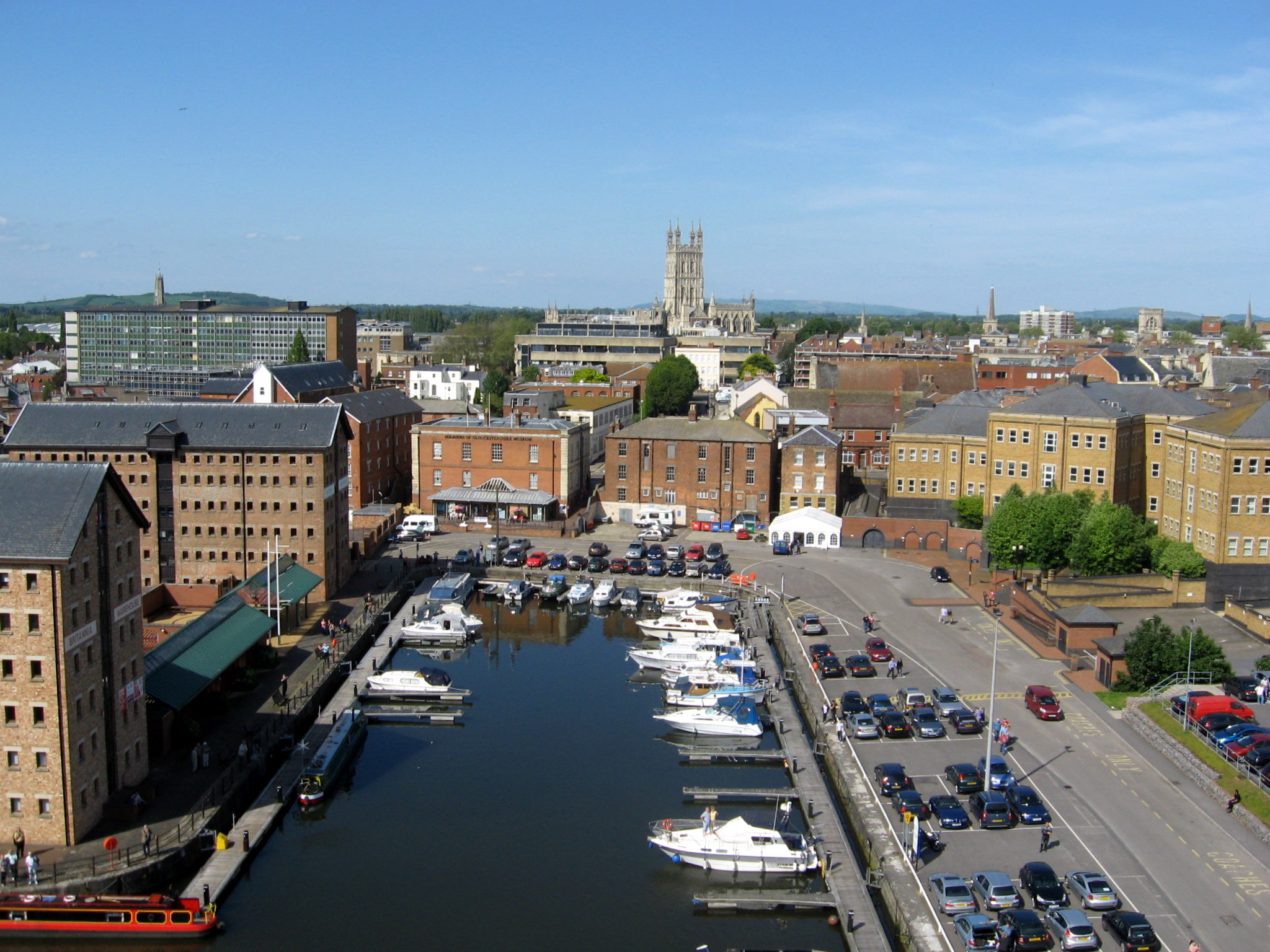 Gloucester docks and cathedral